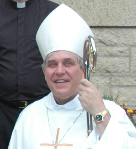 Photo of Roman Catholic Archbishop Jerome E. Listecki